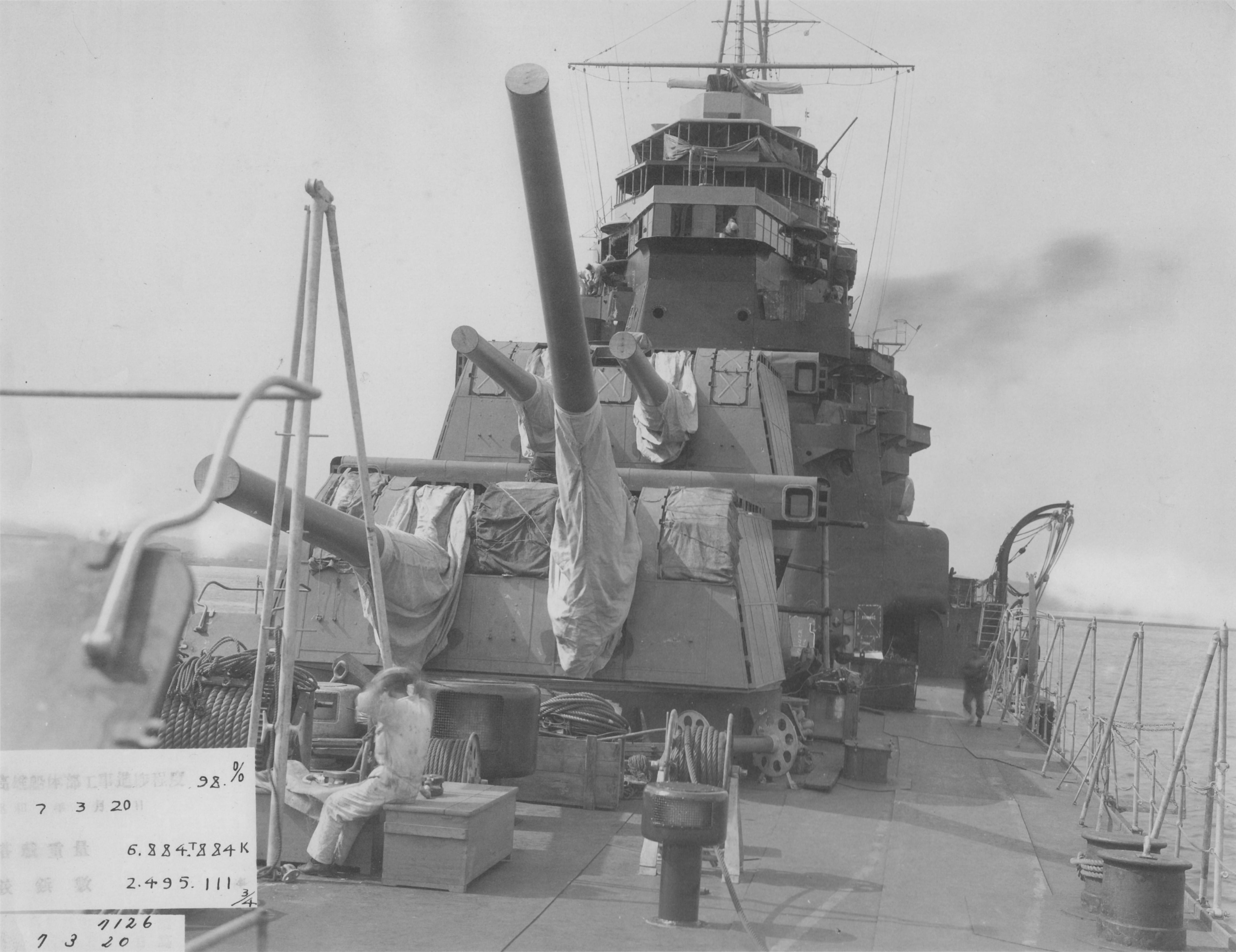 A forward view of turrent 1 and 2 and the bridge japanese heavy cruiser Takao.